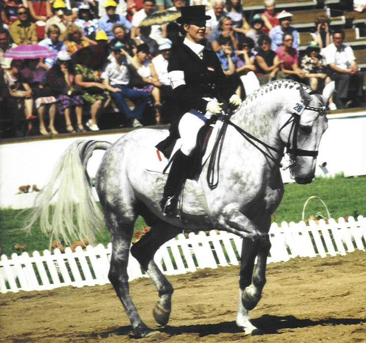 Photo of Elisabeth Max-Theurer on Mon Cherie at the 1980 Olympics in dressage.